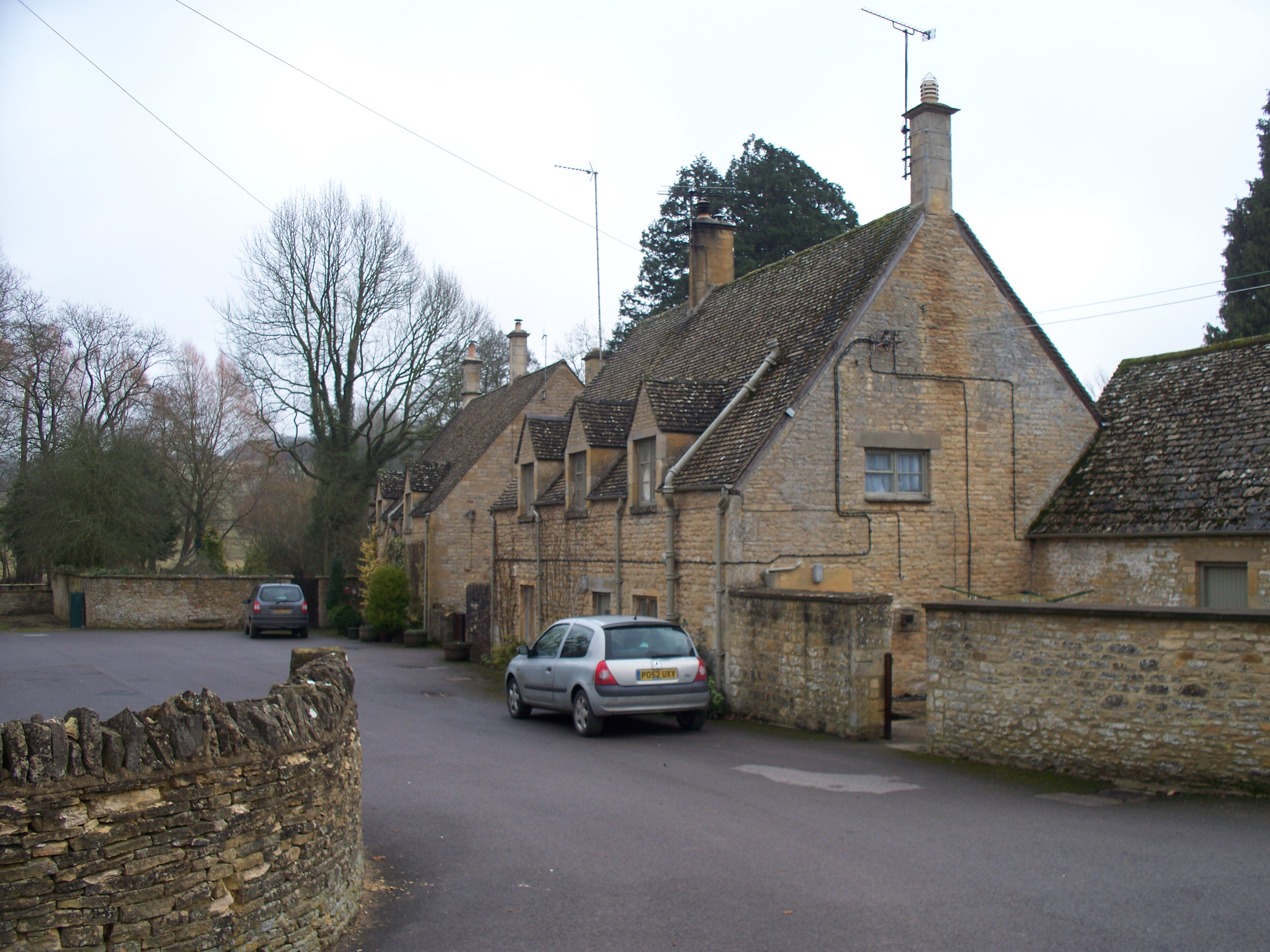 Bowl Farm Seen from the driveway which is part of the Heart of England Way long distance path.